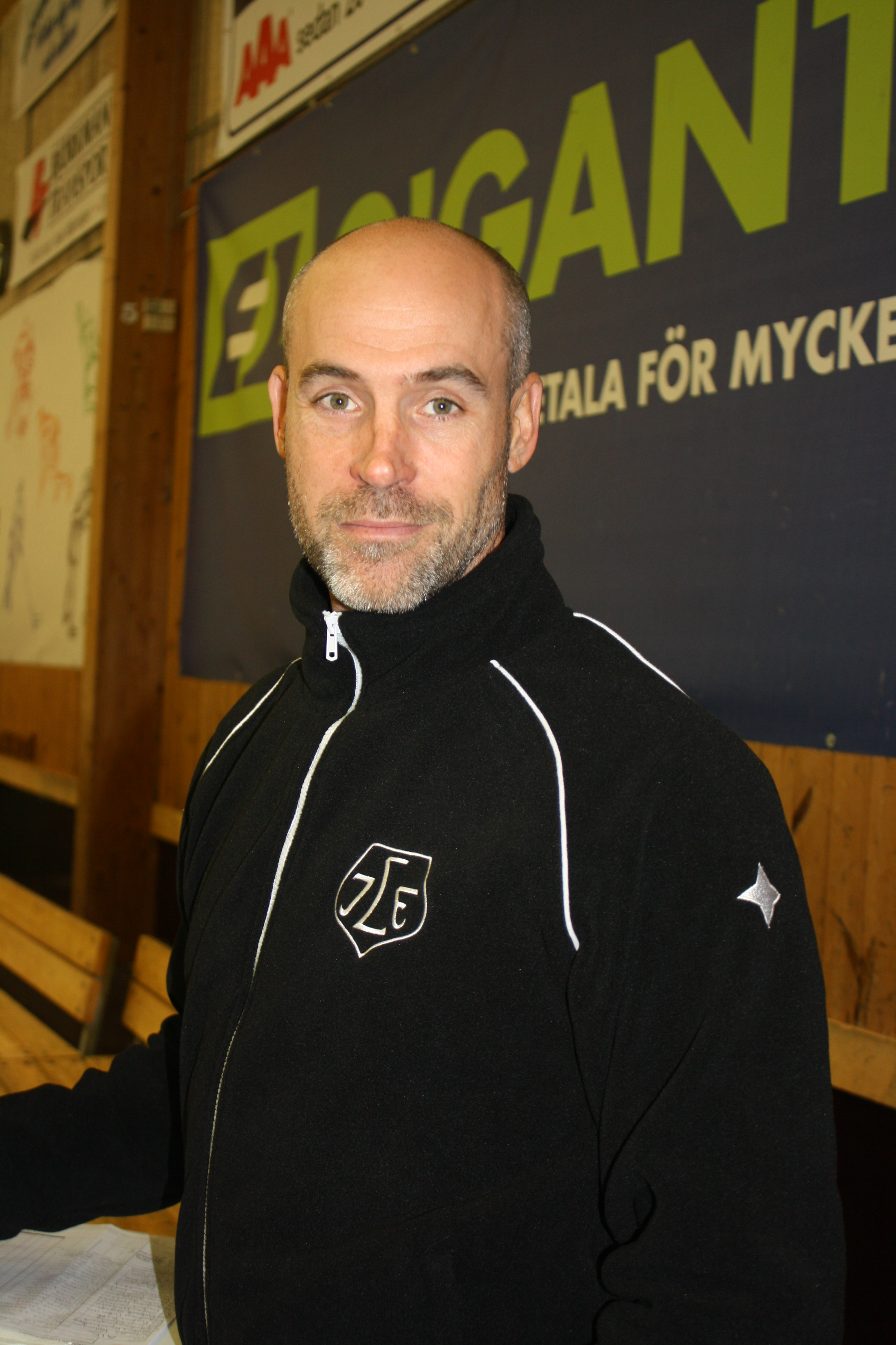 Christer Olsson, assistant coach for Leksands IF during the 2009-2010 season.